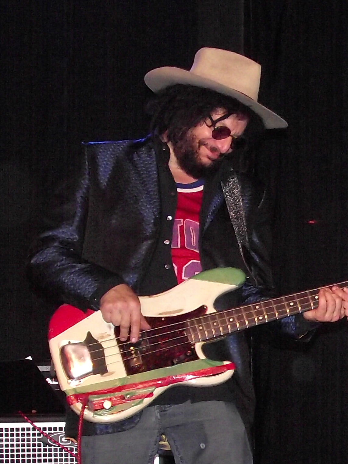 Don Was performing at an Americana Music Association showcase. Cannery Ballroom - Nashville, TN (2010). Photo by Ron Baker.